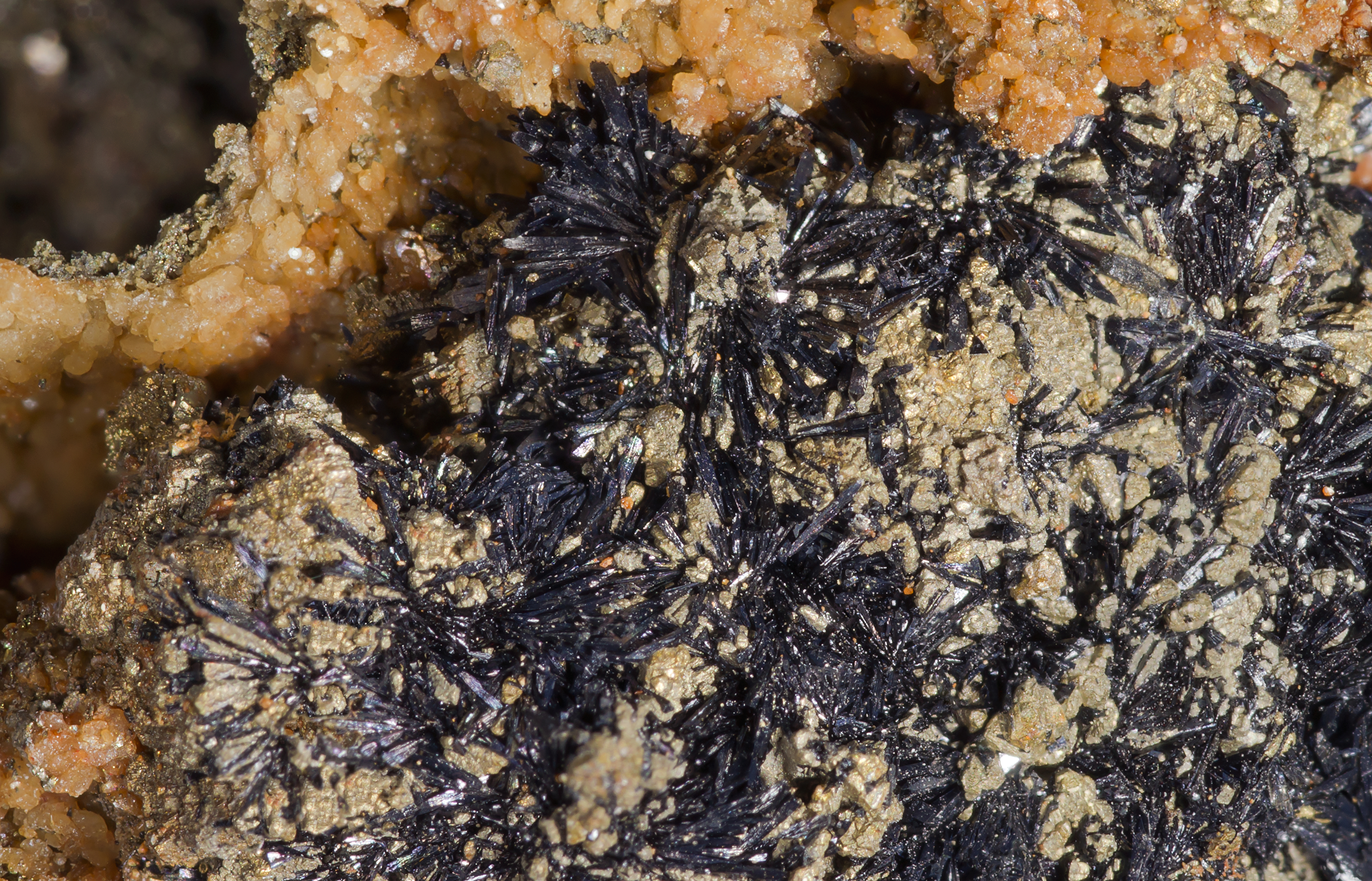 Cronstedtite, Pyrite, Siderite Locality : Salsigne mine, Salsigne, Mas-Cabardès, Carcassonne, Aude, Languedoc-Roussillon, France Size : 3.5 cm